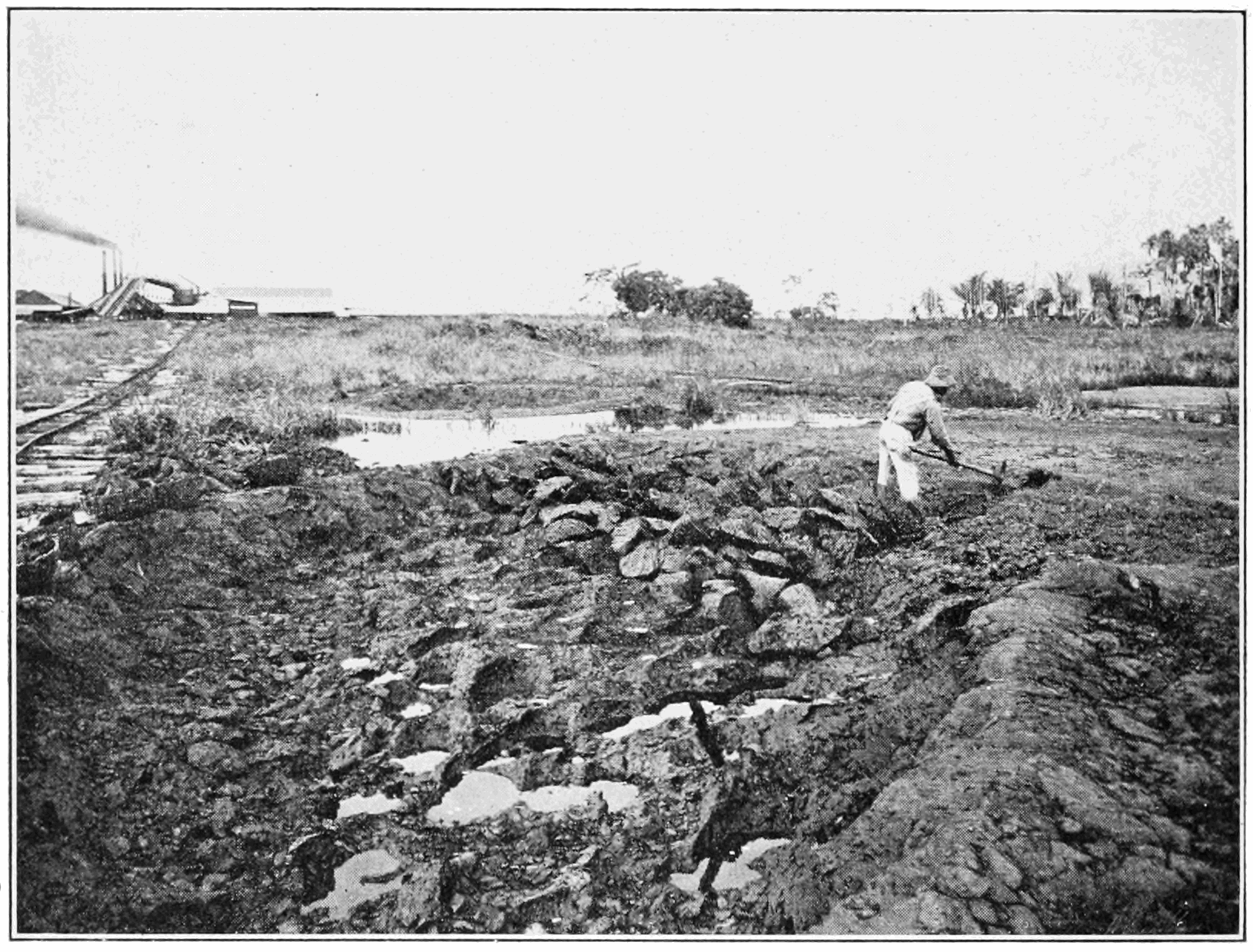 Winning the crude pitch with refinery in the distance